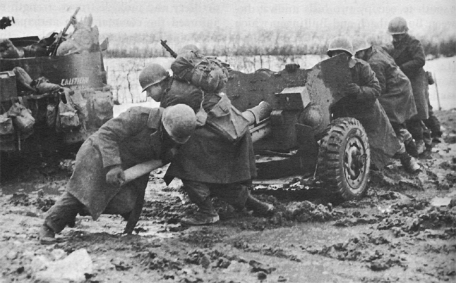 26TH INFANTRY AREA NEAR BUTGENBACH: troops positioning antitank gun.